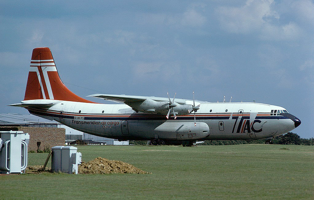 A Short Belfast of Transmeridian Air Cargo at London Stansted Airport in 1979